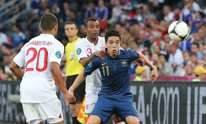 UEFA Euro 2012 match between France and England played in Donetsk at Donbas Arena. Final result was 1:1 (Nasri, Lescott).